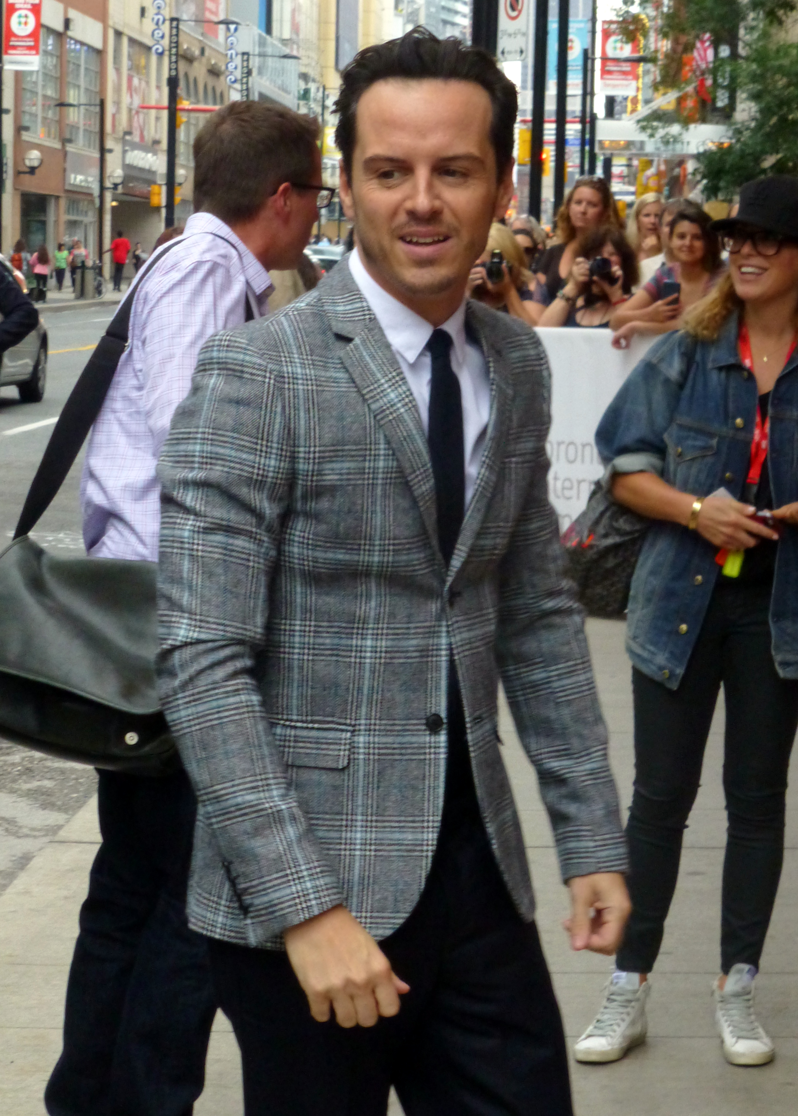 Andrew Scott at the premiere of Pride, 2014 Toronto Film Festival